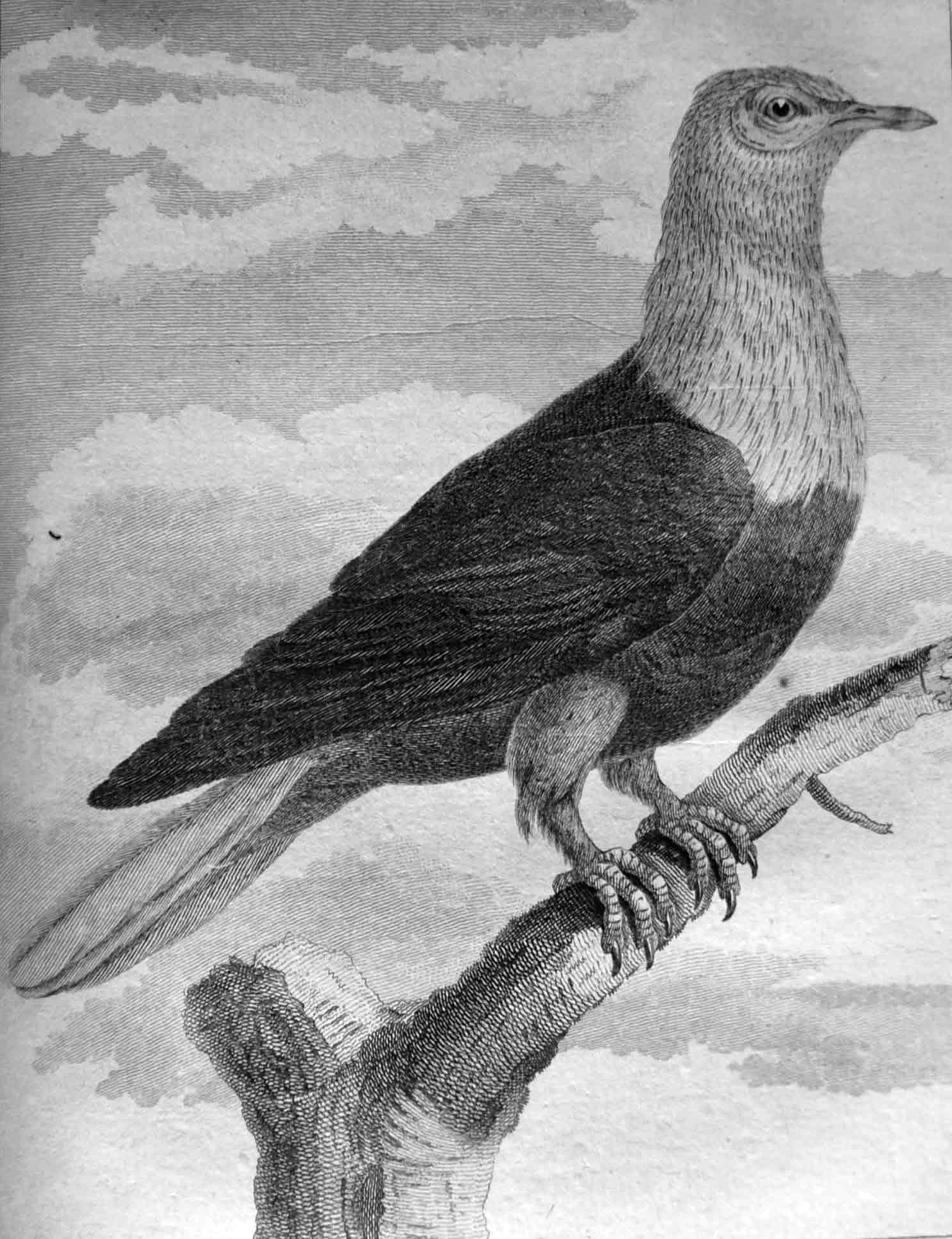 Mauritius Blue Pigeon, drawnafter a stuffed specimen.